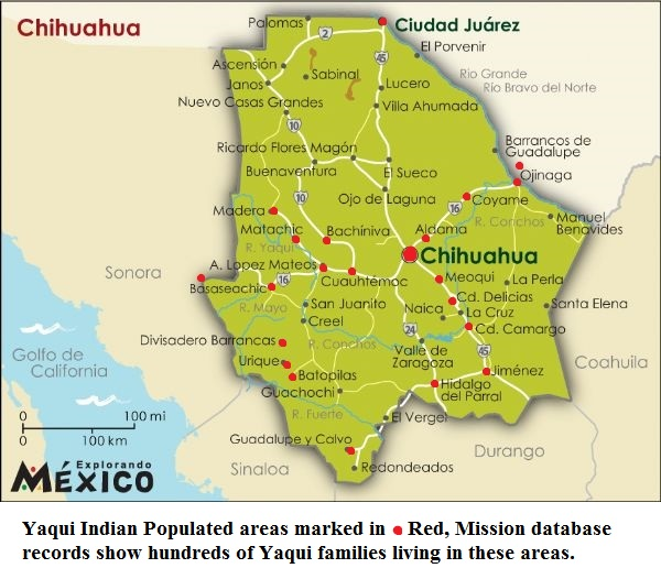 yaqui indian populations in chihuahua